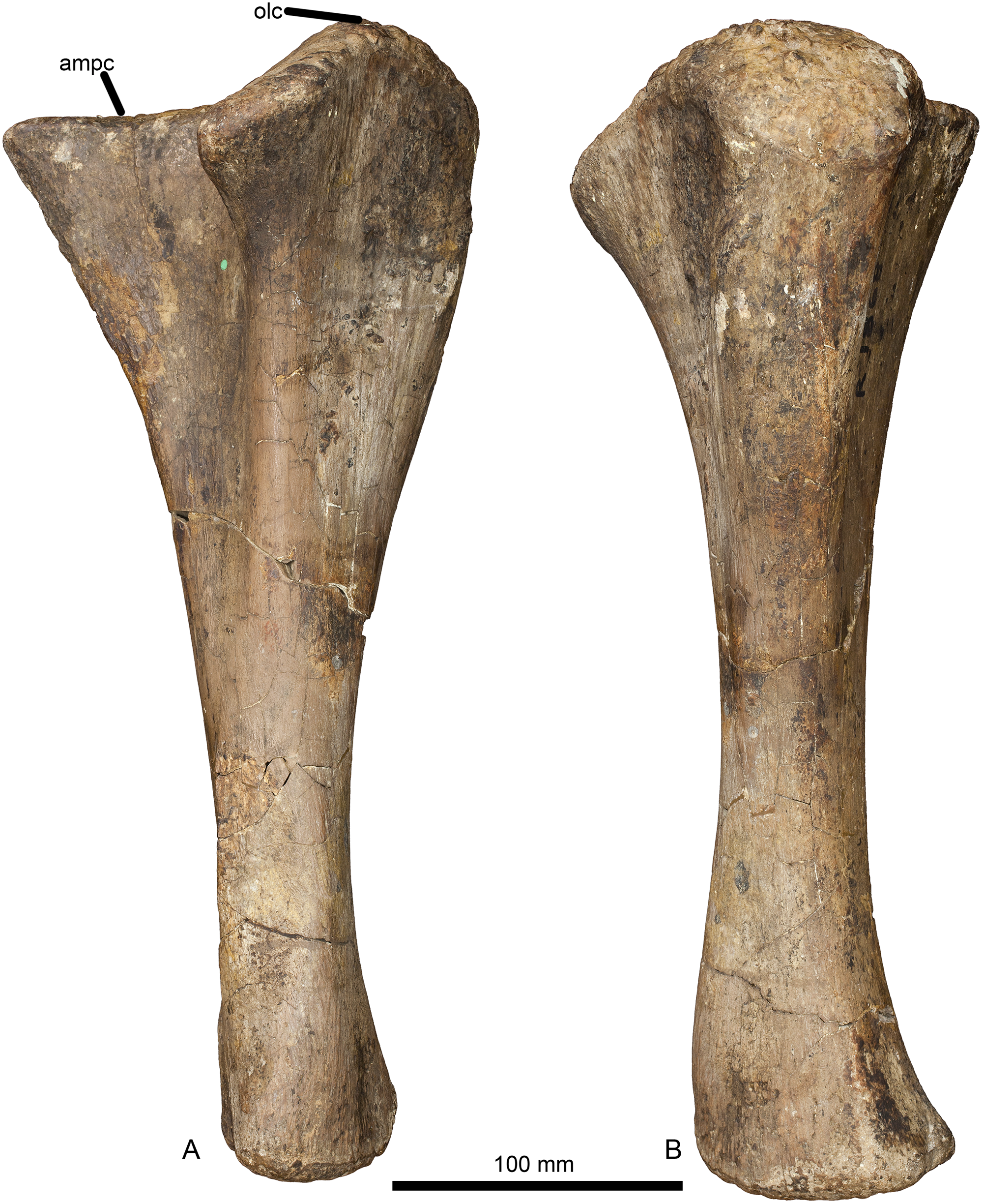 Left ulna of Haestasaurus becklesii (NHMUK R1870). A, anterolateral view (with anteromedial process directed mainly medially); B, posterior view (with posterior process directed towards the observer). Abbreviations: ampc, concave surface of the anteromedial process; olc, olecranon.